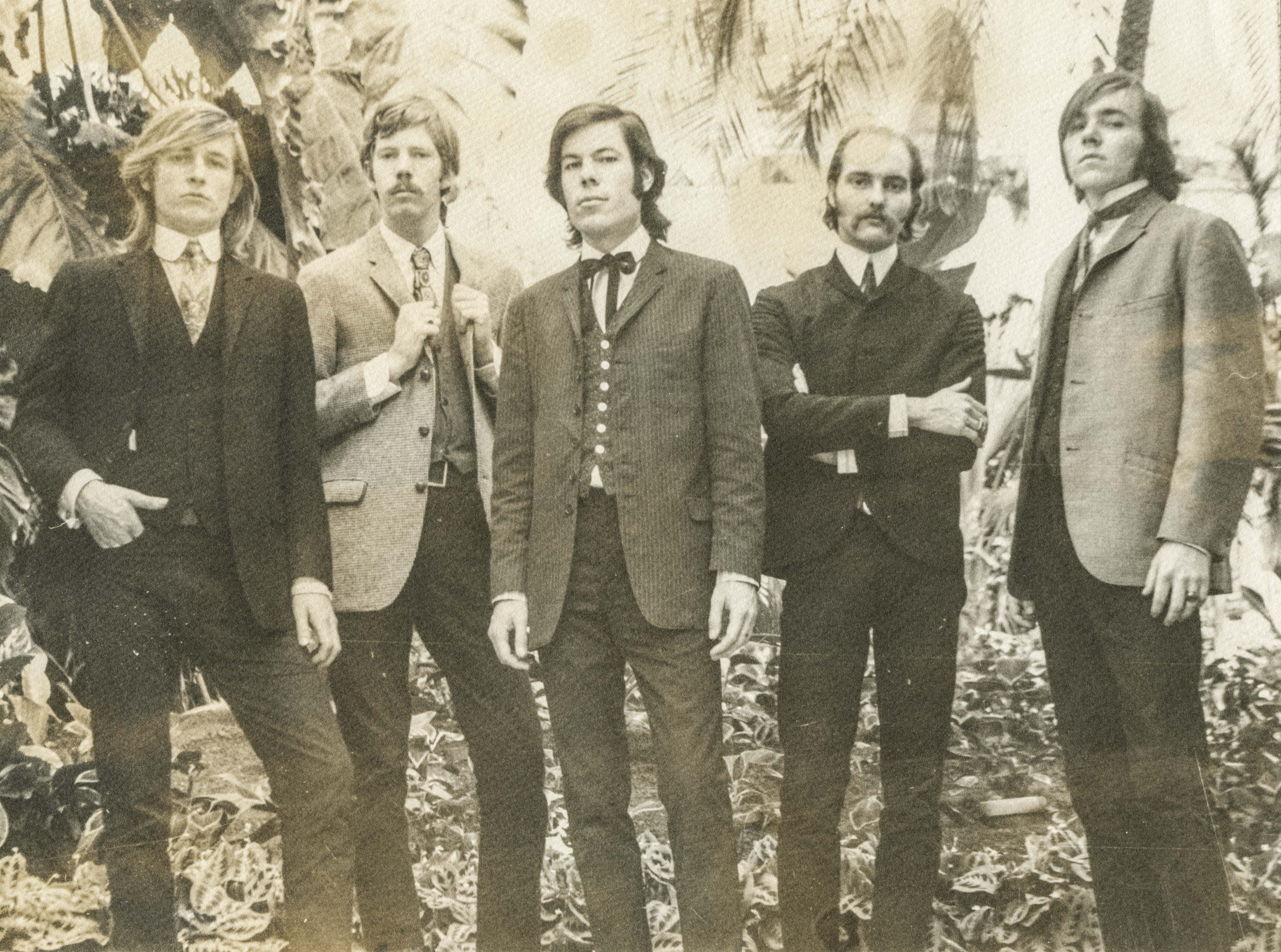 The Charlatans, San Francisco's first 60's rock group